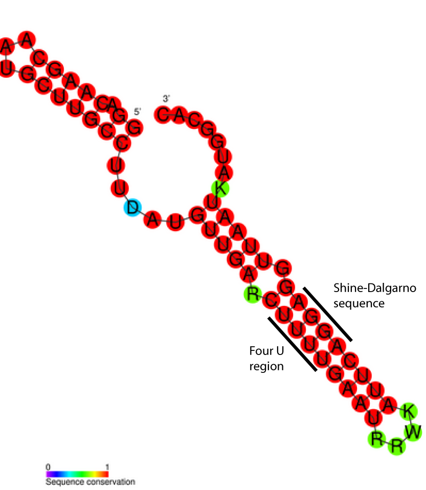 Consensus secondary structure of the FourU thermometer ncRNA.